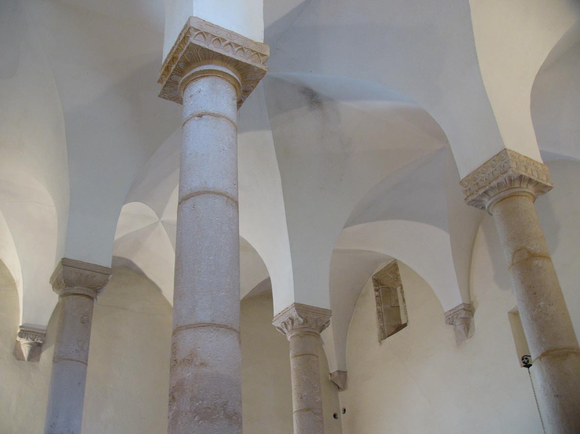 Mediaeval synagogue of Tomar, Portugal